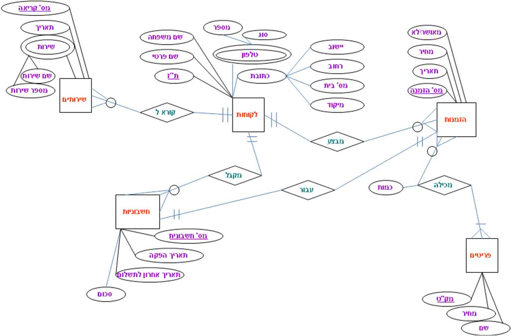 An example of entity relationship diagram in Hebrew.